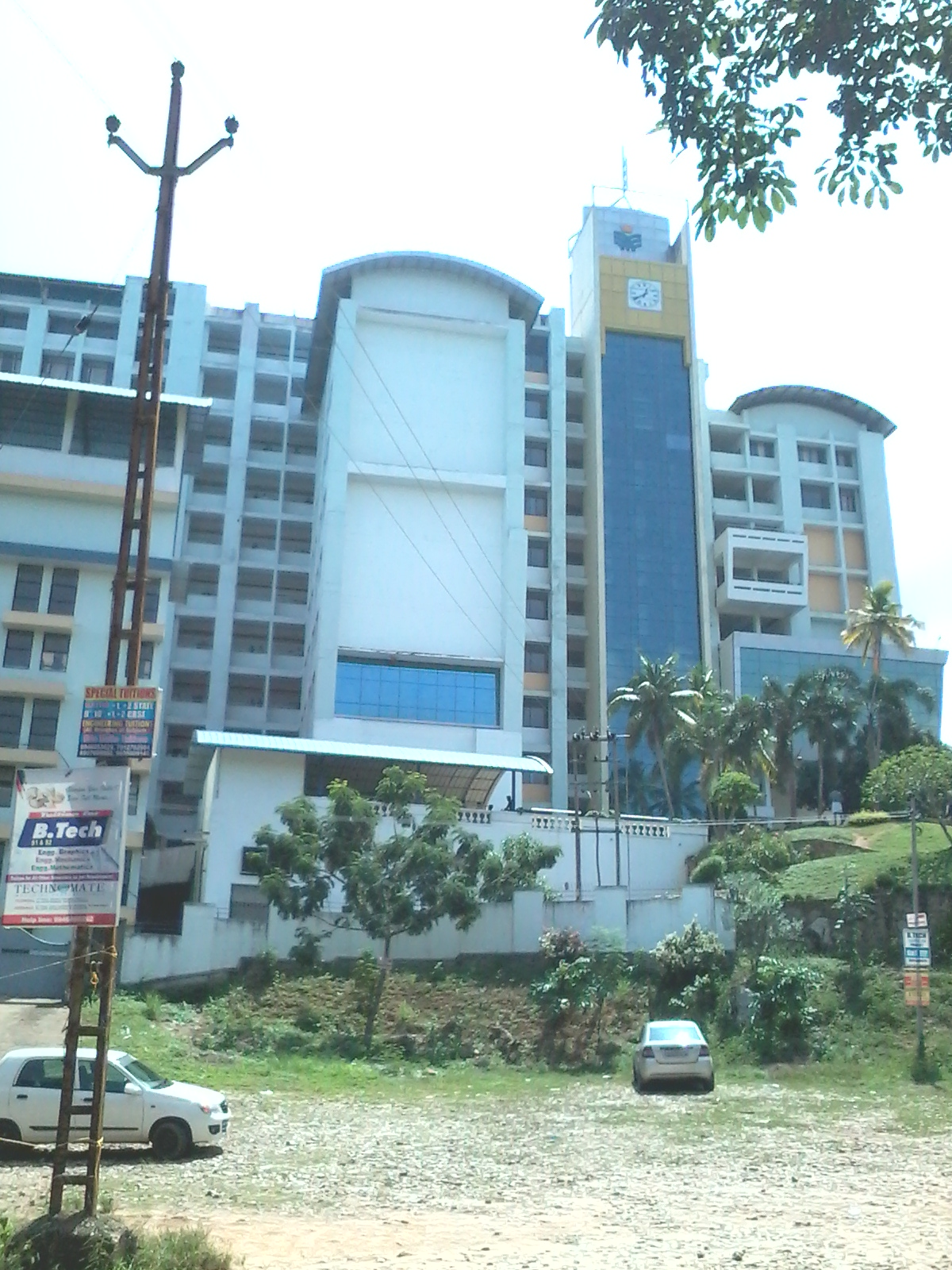 The front view of Rajadhani Institute of Engineering and technology which is located at Nagaroor, Attingal, Trivandrum district, Kerala, India